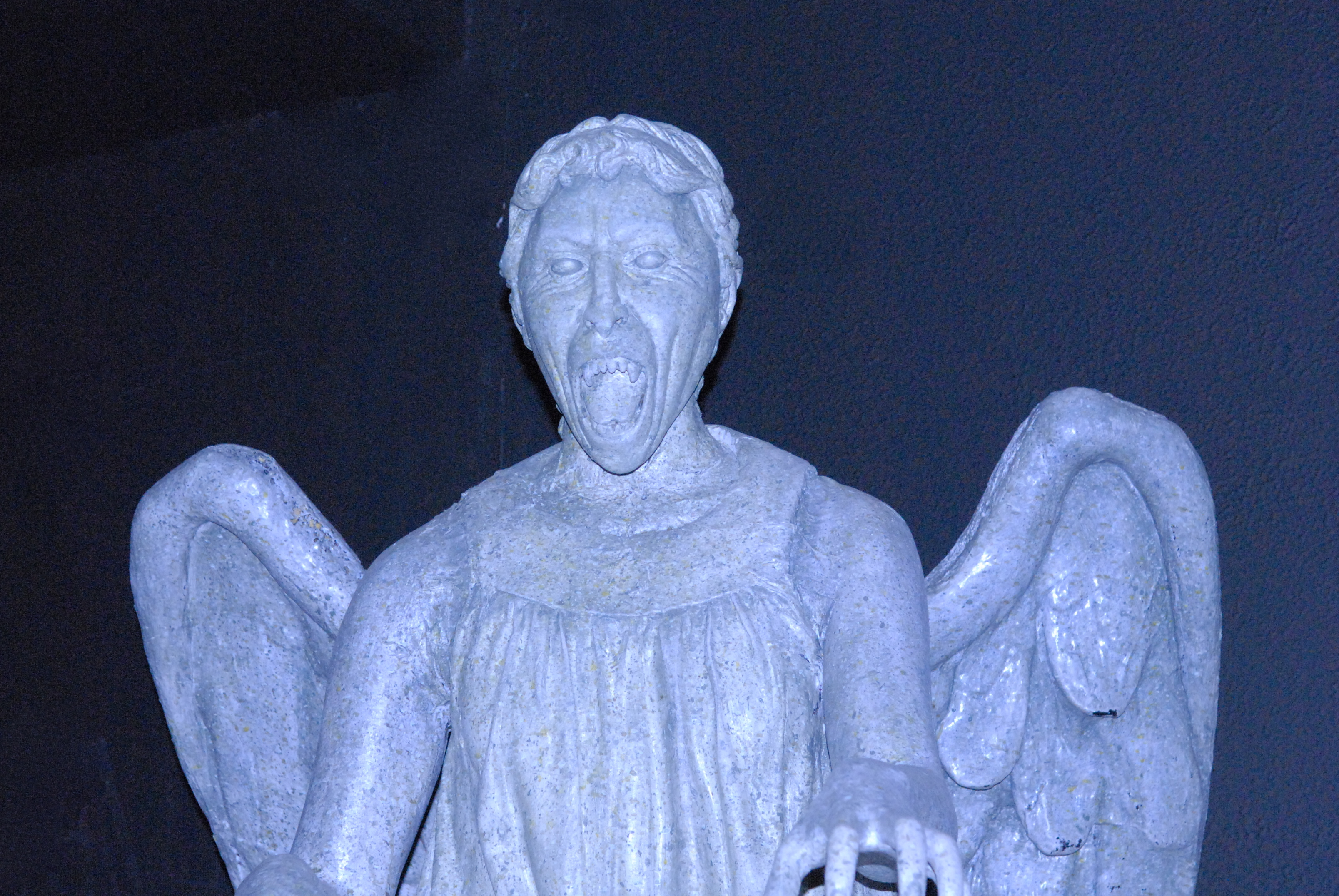 Blink and you're dead! Doctor Who Experience